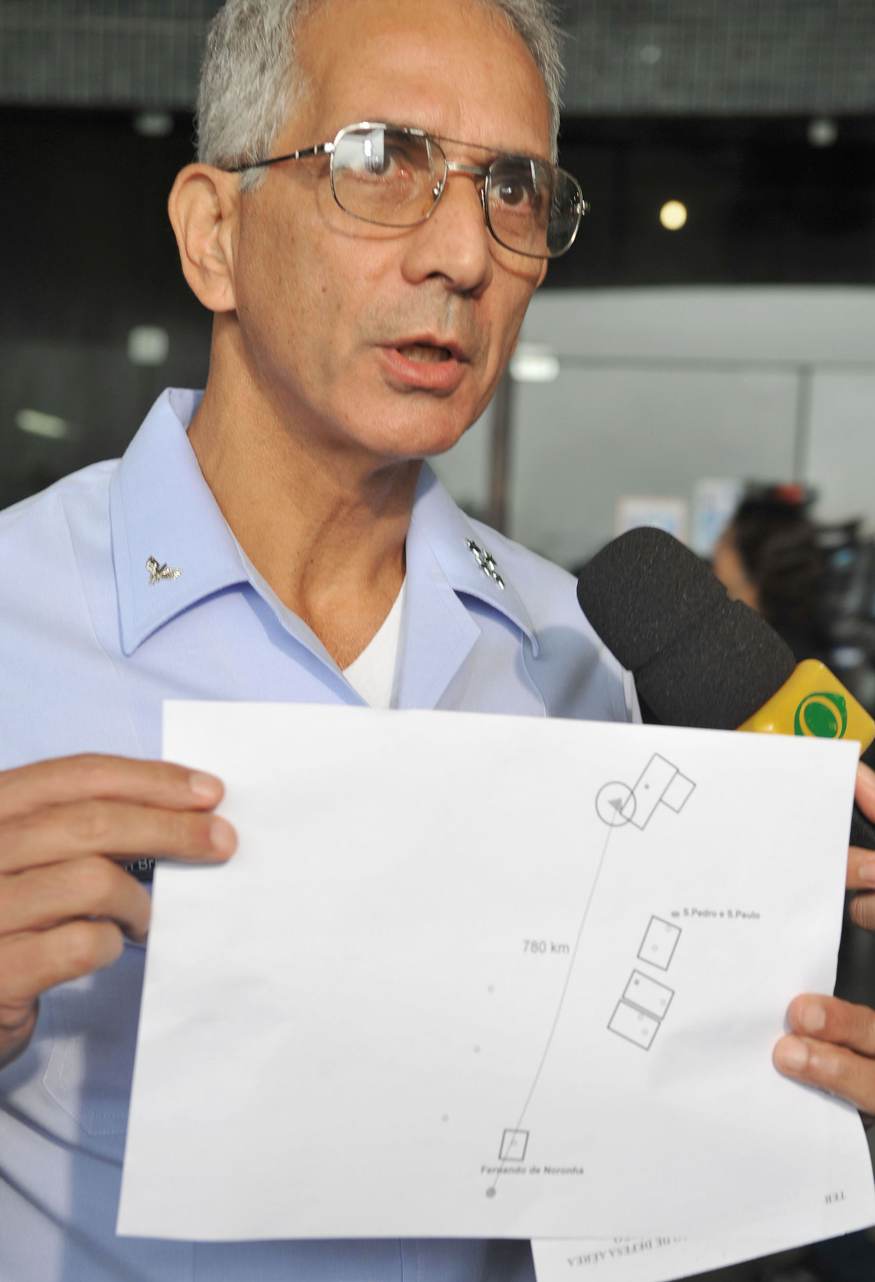 The Brigadier Ramon Borges Cardoso tells about the operation in search of the wreckage of the aircraft.